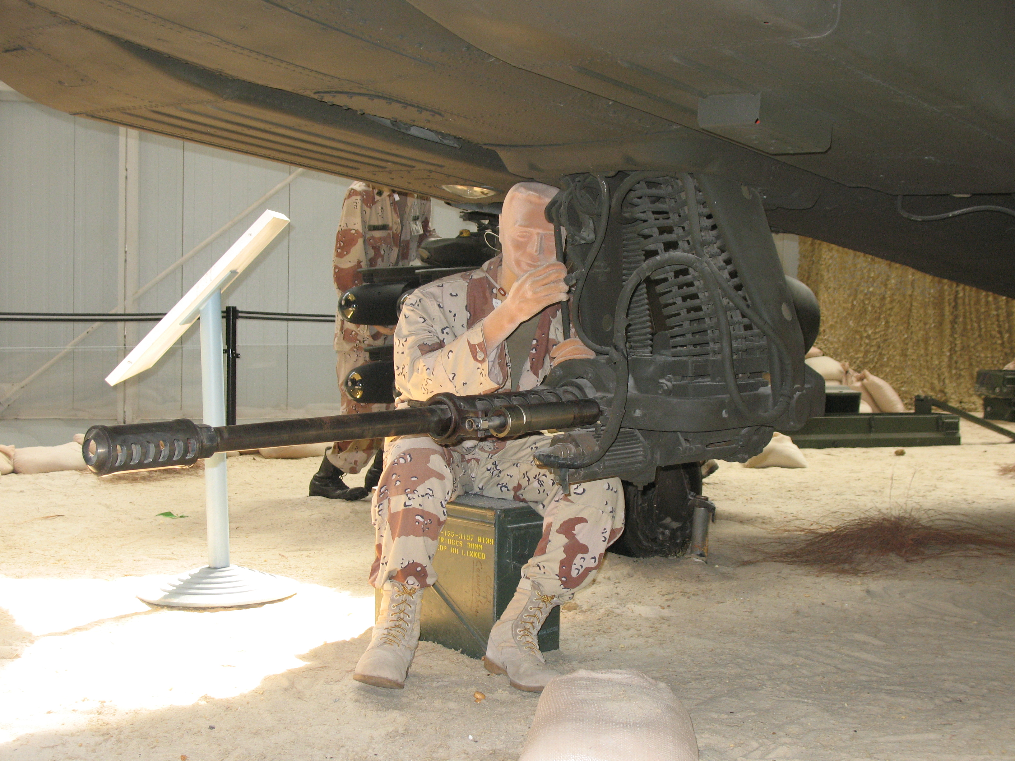 "The main armament includes a 30mm chain gun capable of being aimed through the pilot's helmet system. The gun points in the direction the pilot is looking."